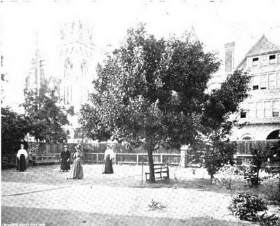 Oakland Female Seminary croquet field